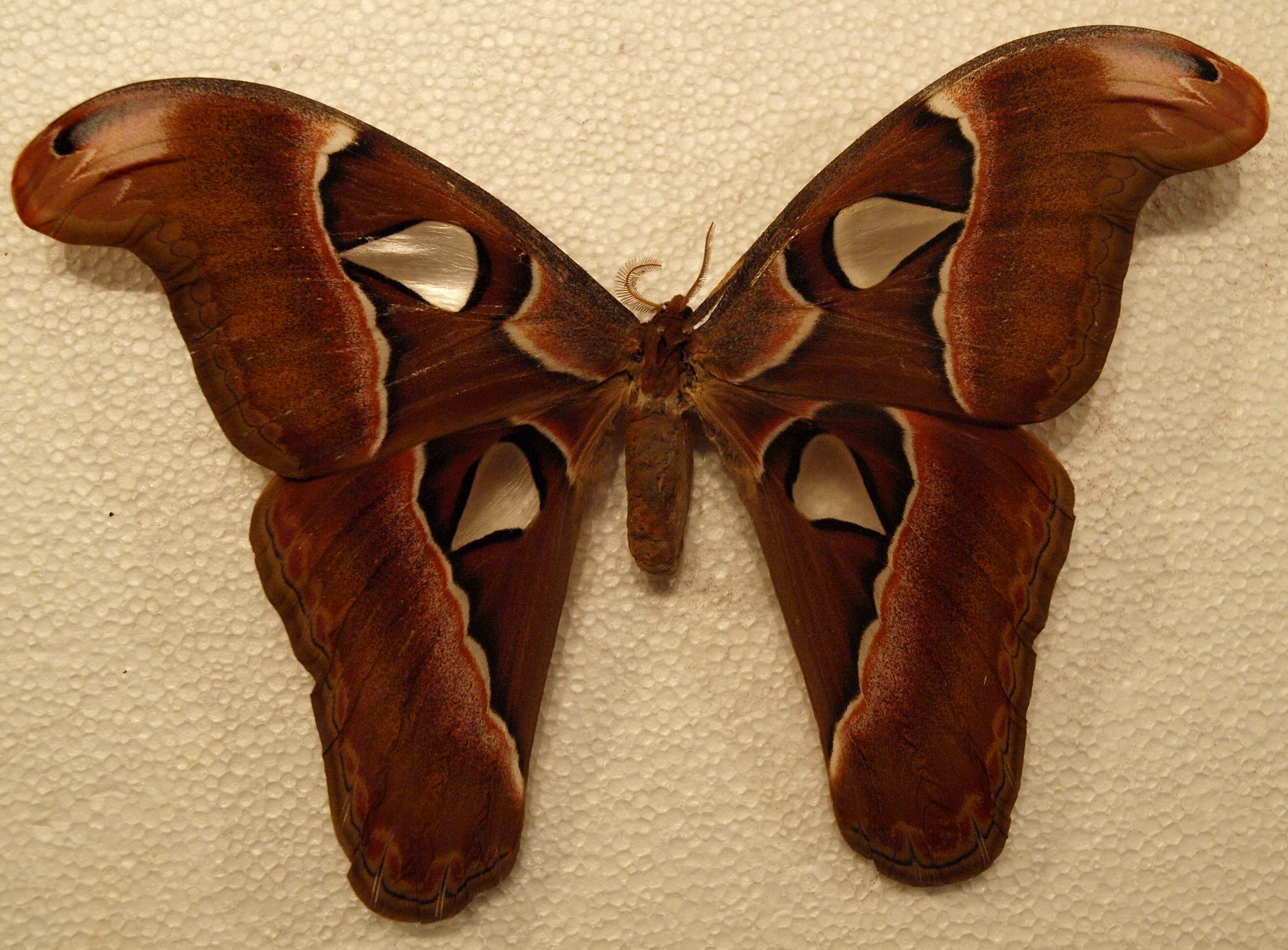 Female Attacus lorquinii (Saturniidae) from Luzon. Ex. own collection